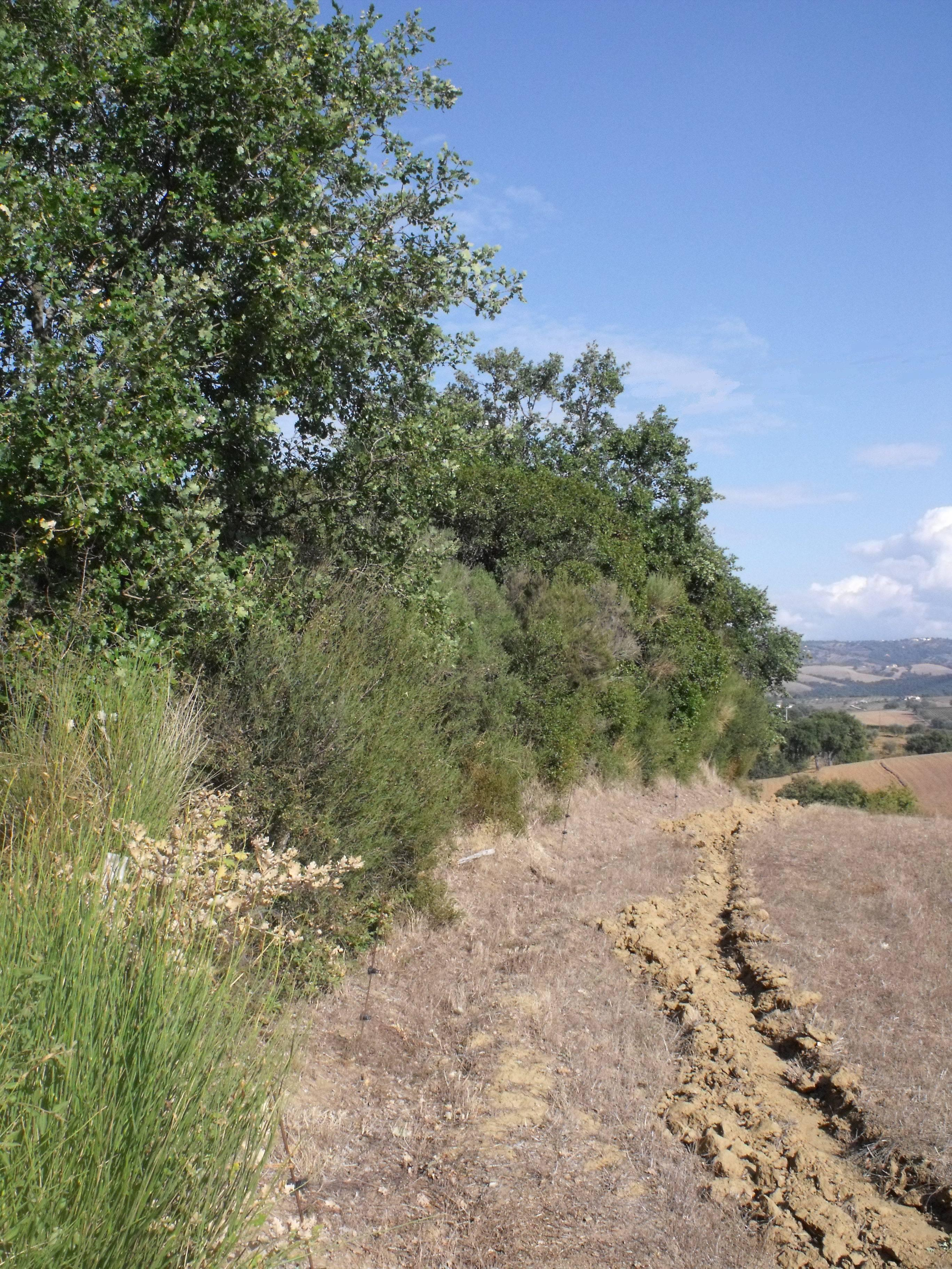 Forest mantle with Spartium junceum and Erica arborea beside a Quercus ilex, Quercus suber, Quercus cerris and Quercus pubescens forest in a Mediterranean area in Central Italy (Magliano in Toscana, Tuscany). Photo by Massimiliano Marcelli